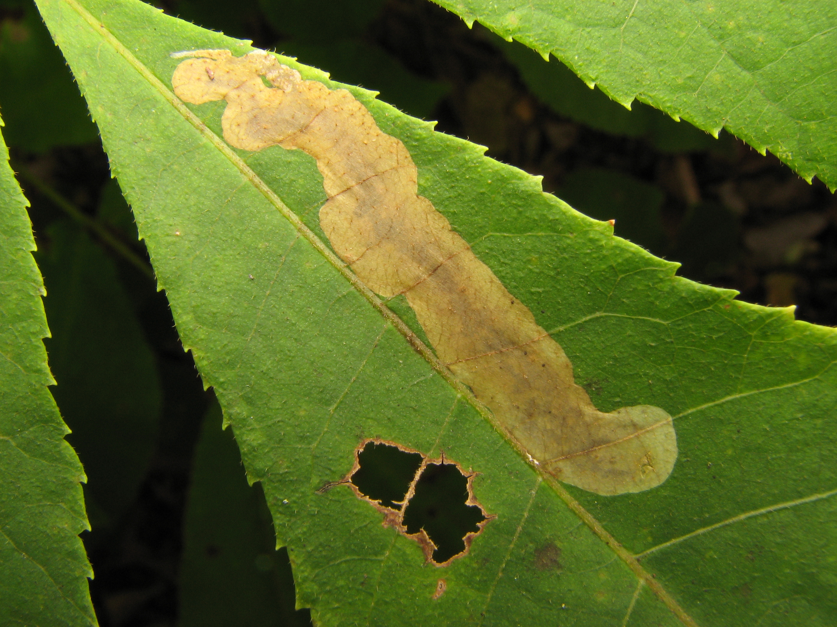 Leaf mine of Cameraria caryaefoliella (pecan leafminer, Hodges#0811) on hickory. Willow Grove, Montgomery County, Pennsylvania, USA.